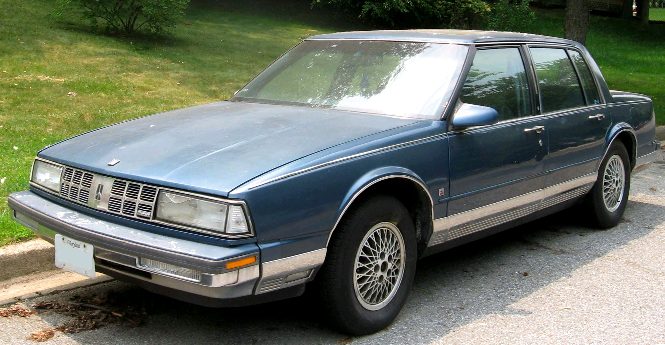 1985-1990 Oldsmobile 98 photographed in USA.